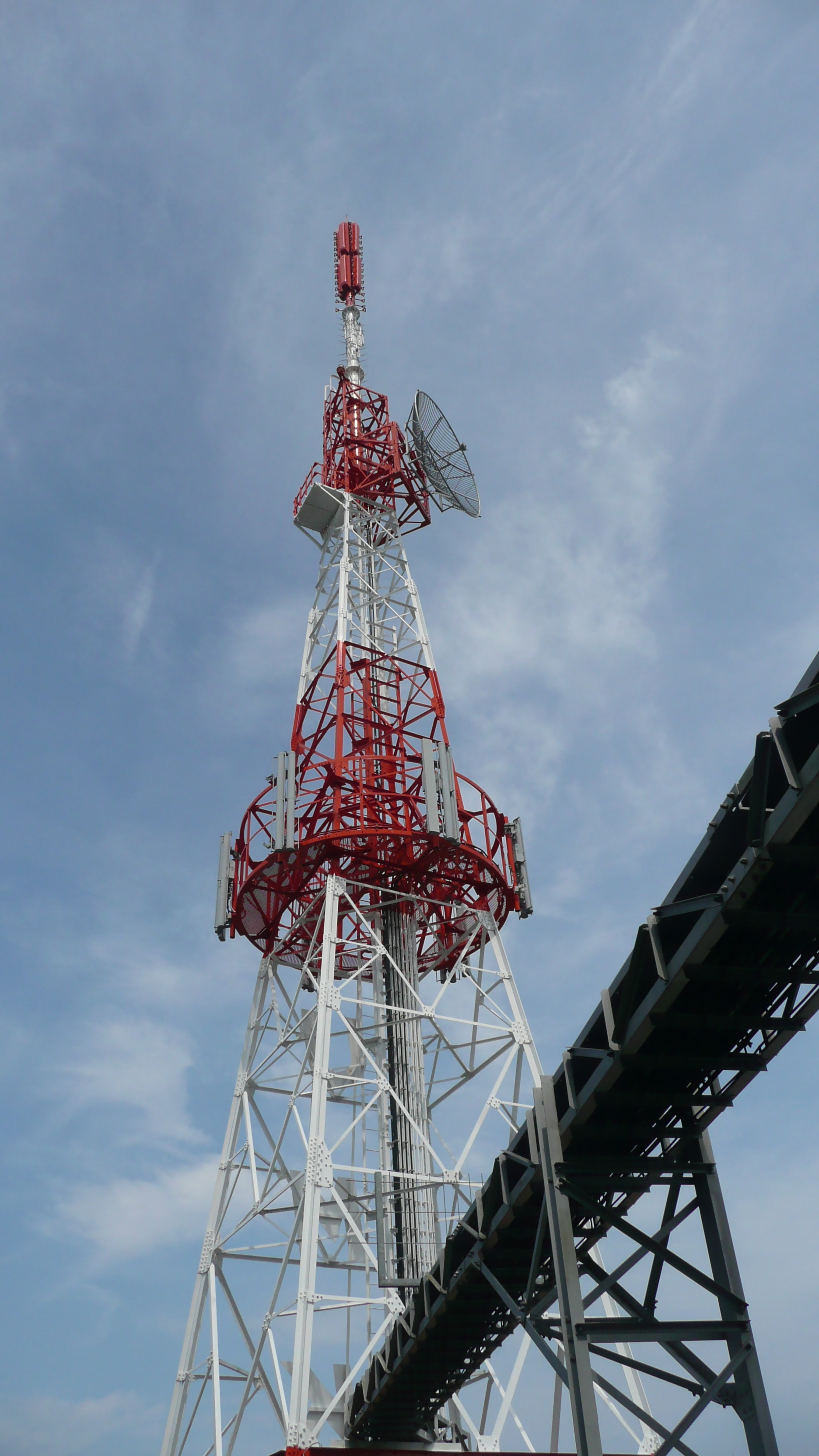 JODI-(D)TV (Miyazaki Telecasting Co., Ltd. - UMK) Nobeoka Repeater (Nobeoka, Miyazaki, Japan)